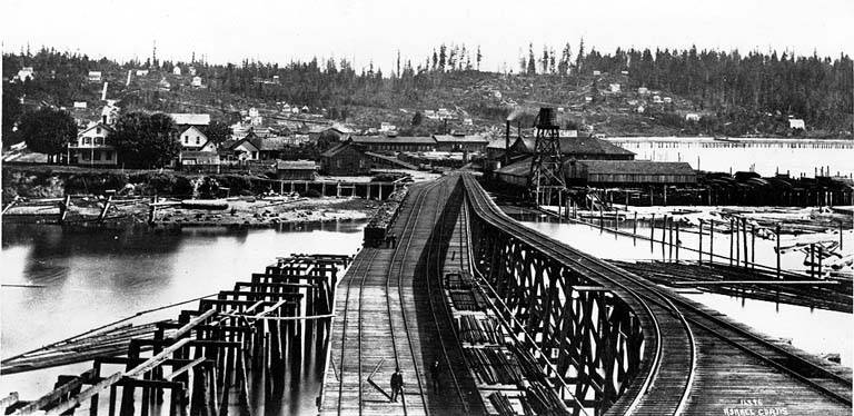 Original by Carleton E. Watkins 5214 (See PH Coll 286.1). Stetson & Post Co. mill at right. The view is from the coal docks of Columbia & Puget Sound Ry. Subjects (LCTGM): Piers & wharves--Washington (State)--Seattle; Railroad companies; Railroad tracks--Washington (State)--Seattle; Mills--Washington (State)--Seattle; Lumber industry--Washington (State)--Seattle; Industrial facilities--Washington (State)--Seattle Subjects (LCSH): Columbia and Puget Sound Railway Company ; Stetson and Post Columbia and Puget Sound Railway was the reorganized Seattle and Walla Walla Railroad.